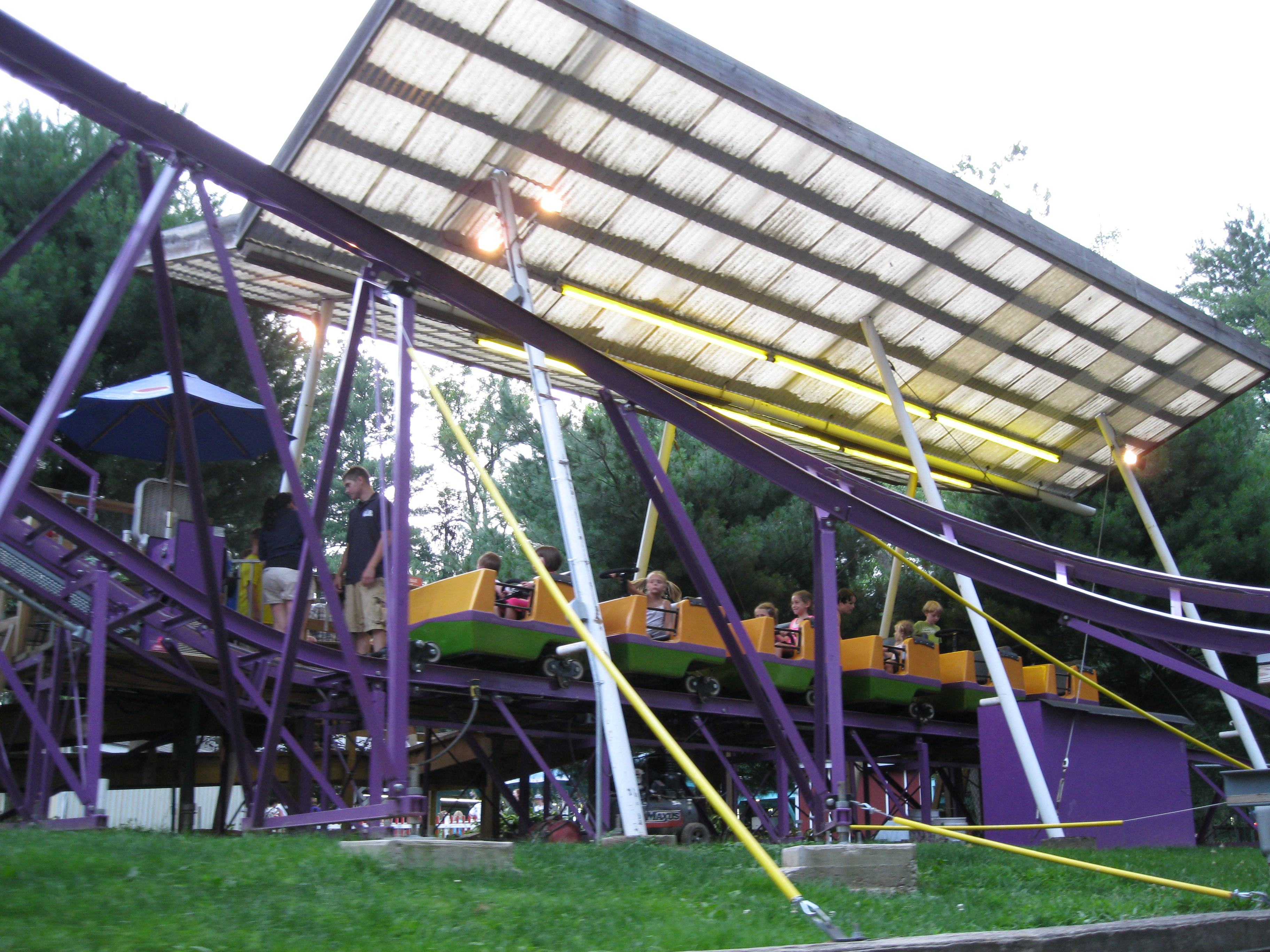 The Kosmo's Kurves roller coaster (opened 2009) in Knoebels Amusement Resort, Elysburg, Pennsylvania, USA.